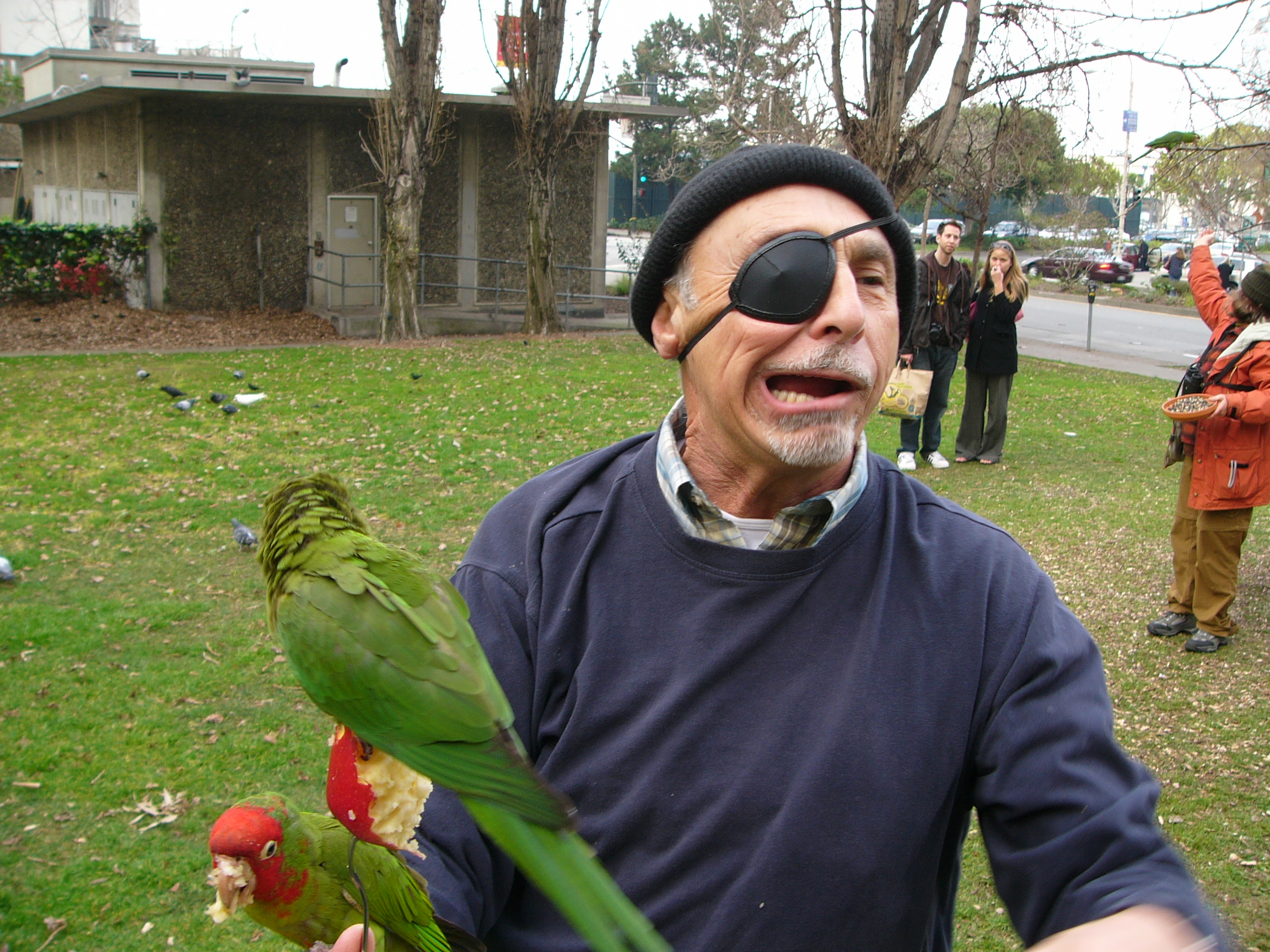 A man wearing a pirate costume, complete with parrot and eyepatch.